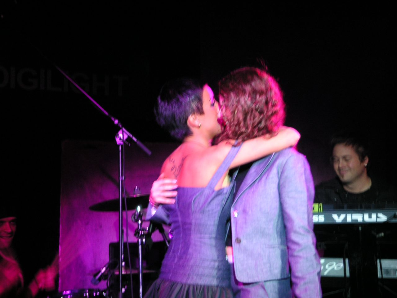 Russian pop duo t.A.T.u. kissing during a concert at the Gaudi Arena in Moscow, on October 28th 2005